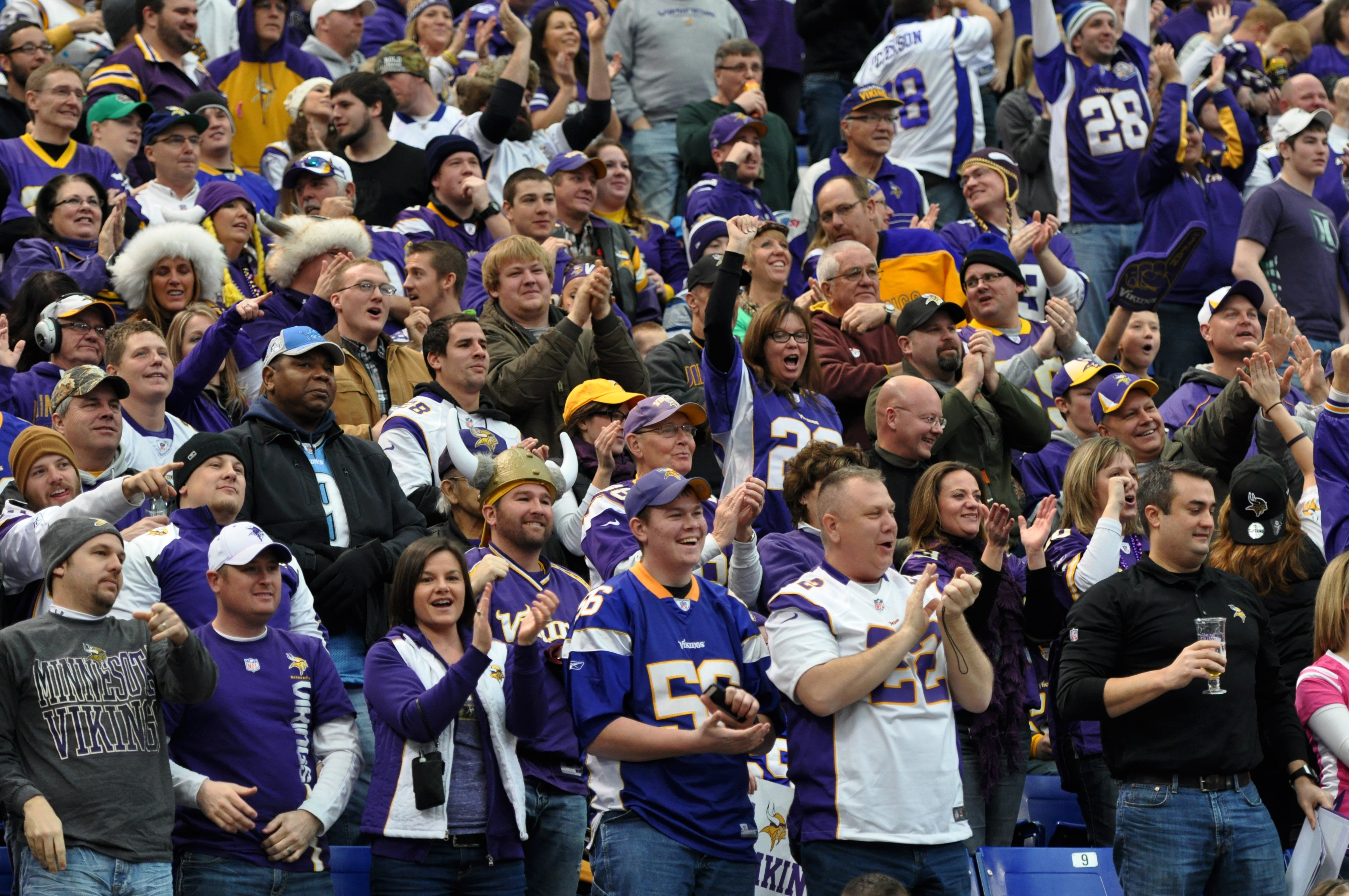 Minnesota Vikings fans